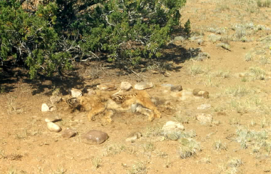 An animal sacrifice Due to the unverifiable nature of this image, it should not be used in any articles but may be used on talk or user pages. -Nv8200p talk 23:48, 5 February 2007 (UTC)